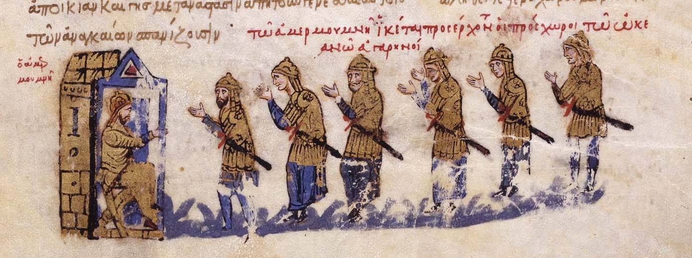 The Arabs of Iberia address their leader Apochaps